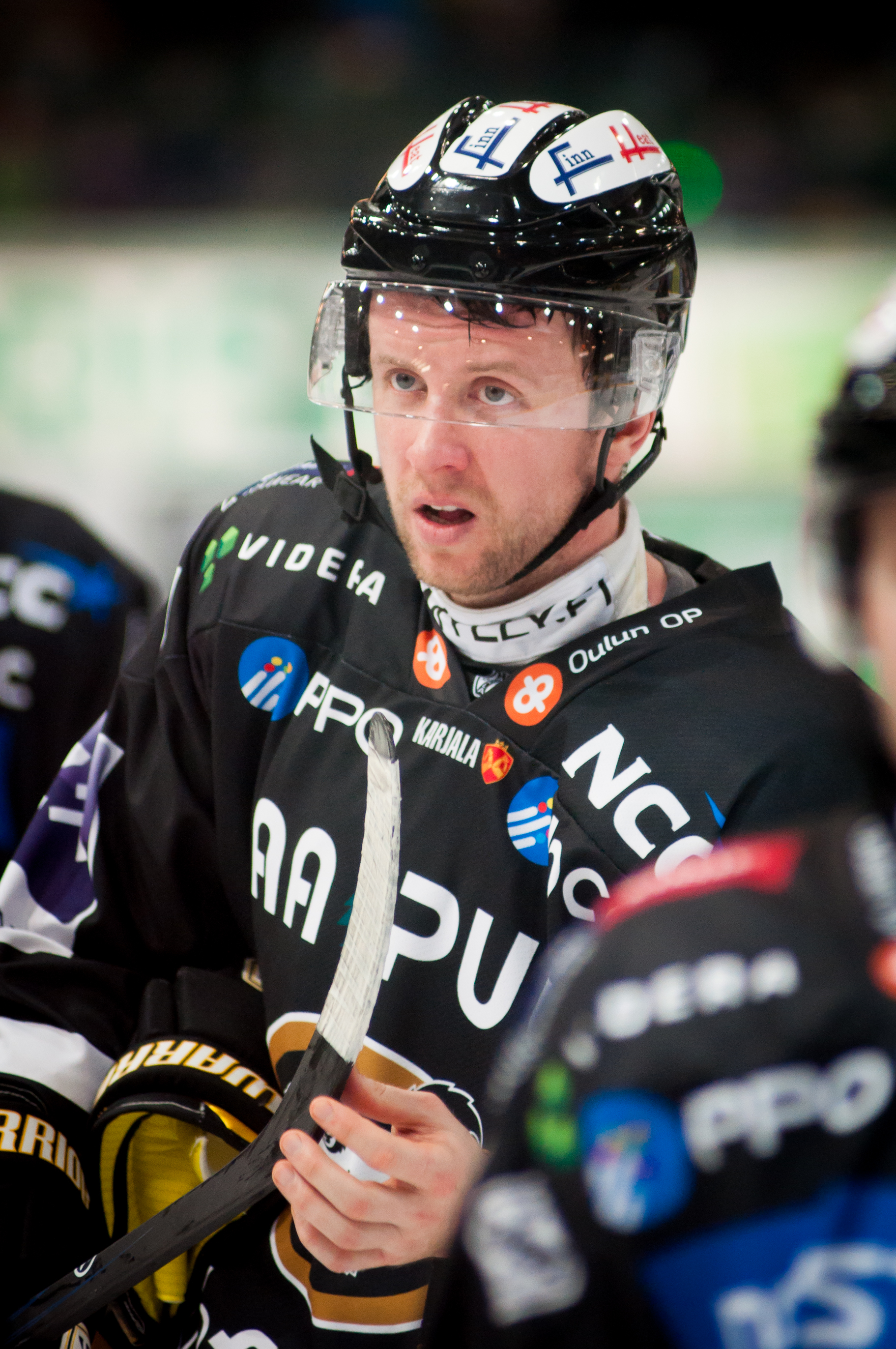 Ice hockey forward Ivan Huml of Oulun Kärpät playing against SaiPa Lappeenranta in Lappeenranta, Finland.